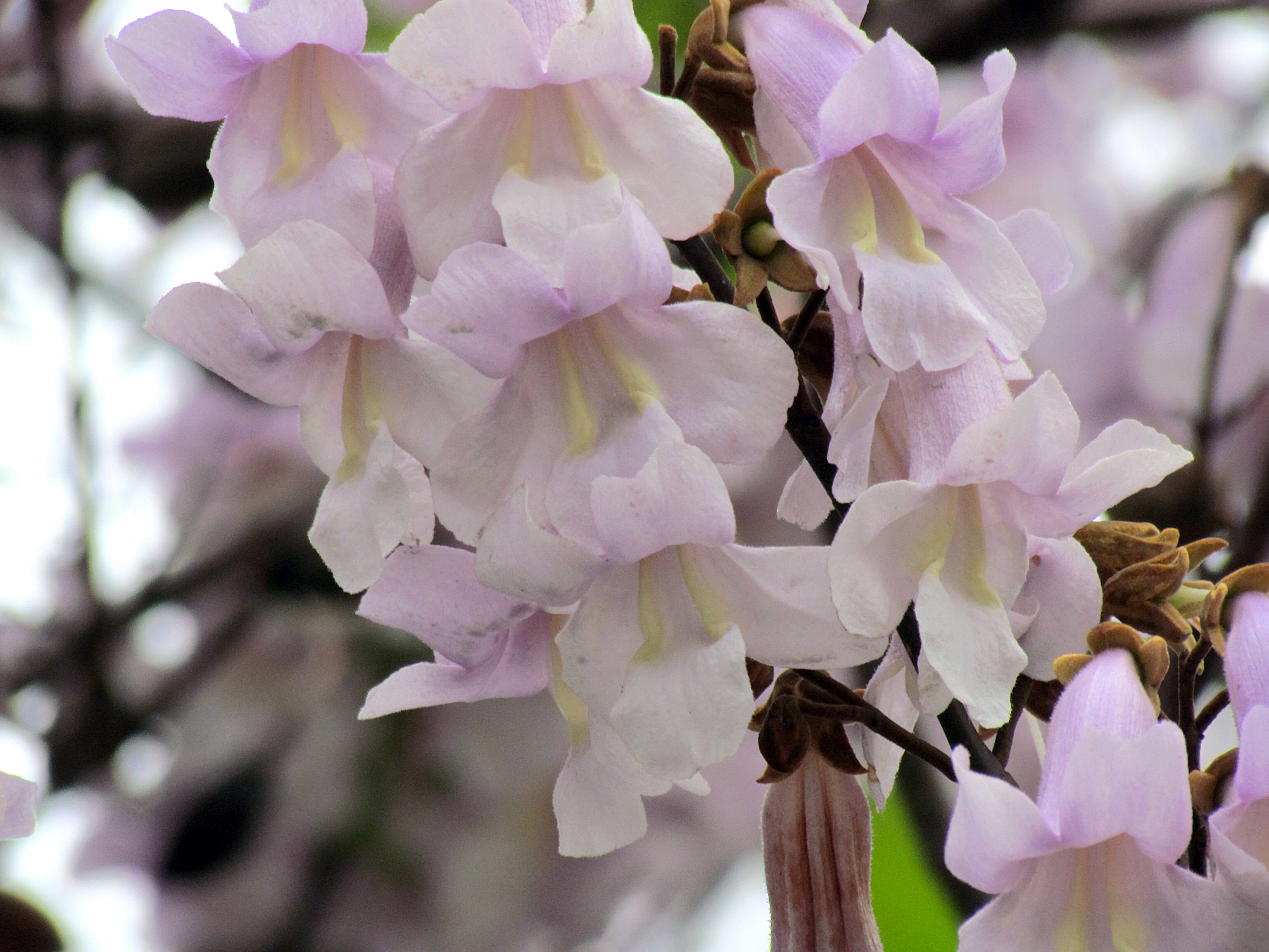 Paulownia tomentosa flowers (author: Mihailo Grbić)